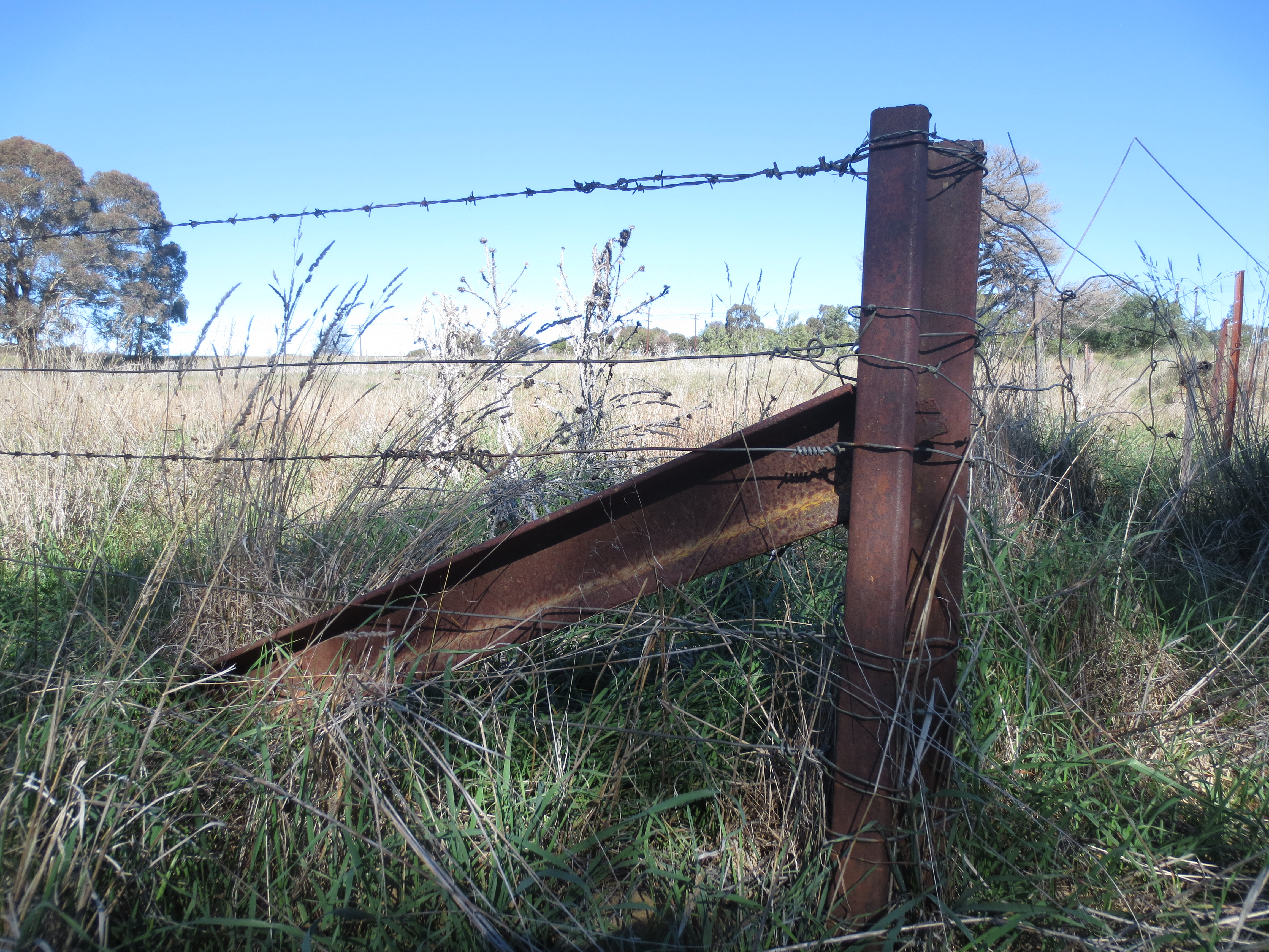 Fence post made from recycled railway line located near Galong Railway Station Australia